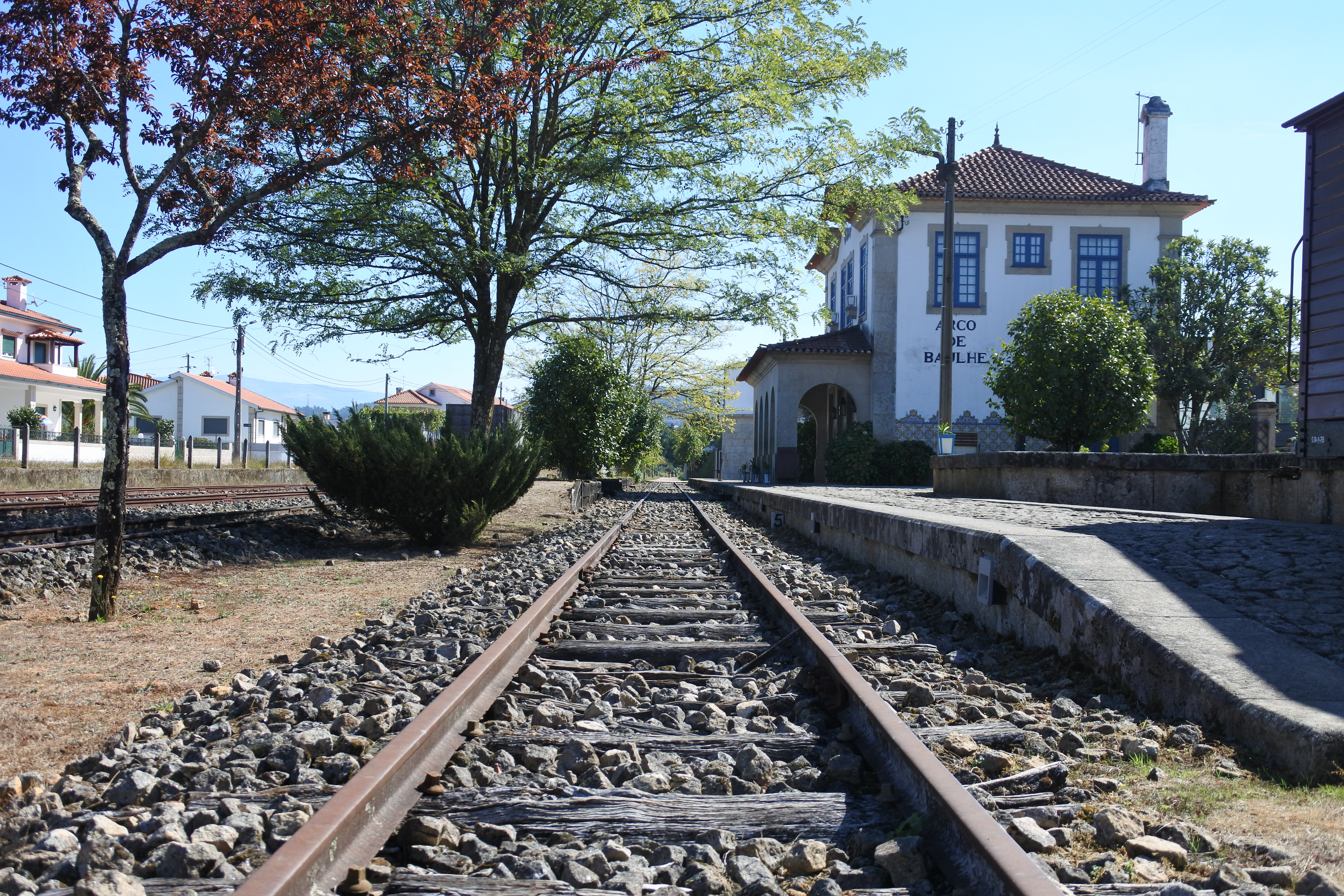 Old train station of Arco de Baúlhe, the start of Arco de Baúlhe - Amarante cyclepath, also known as "Tamega cyclepath", since it mostly follows the valley of the Tamega river.